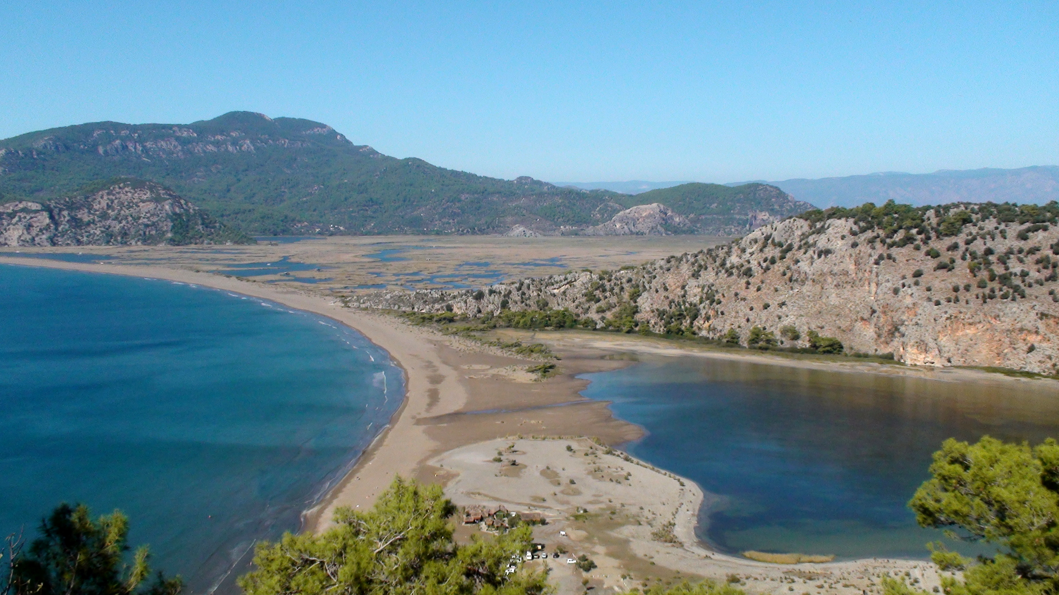 Iztuzu Beach